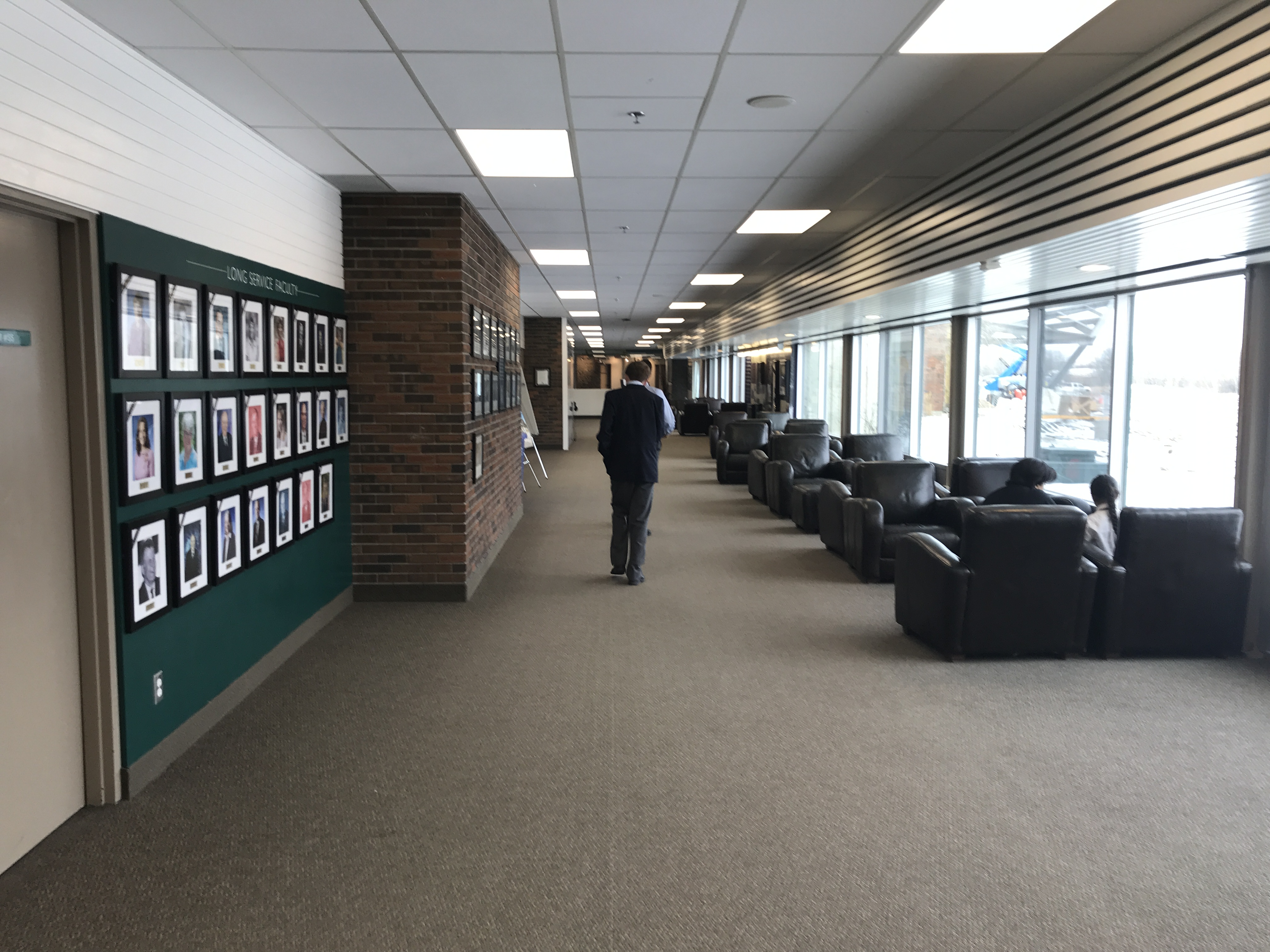 The rotunda, a long hallway, that leads to the cafeteria at STS.